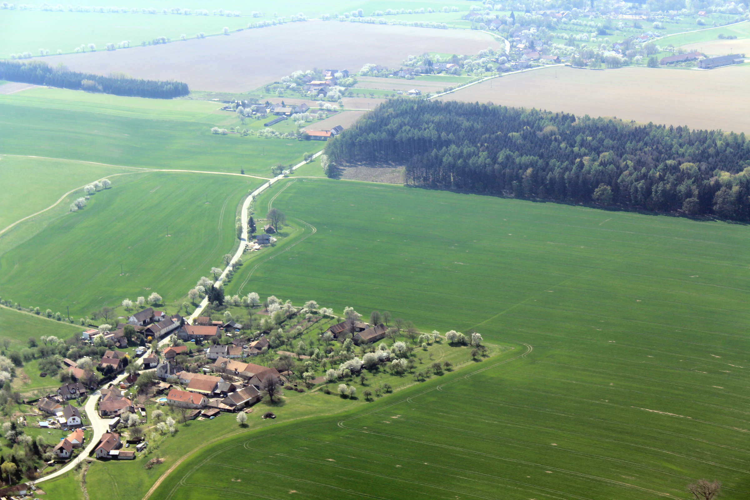 Small village Zádolí, part of village Trnov in Rychnov nad Kněžnou District from air, eastern Bohemia, Czech Republic